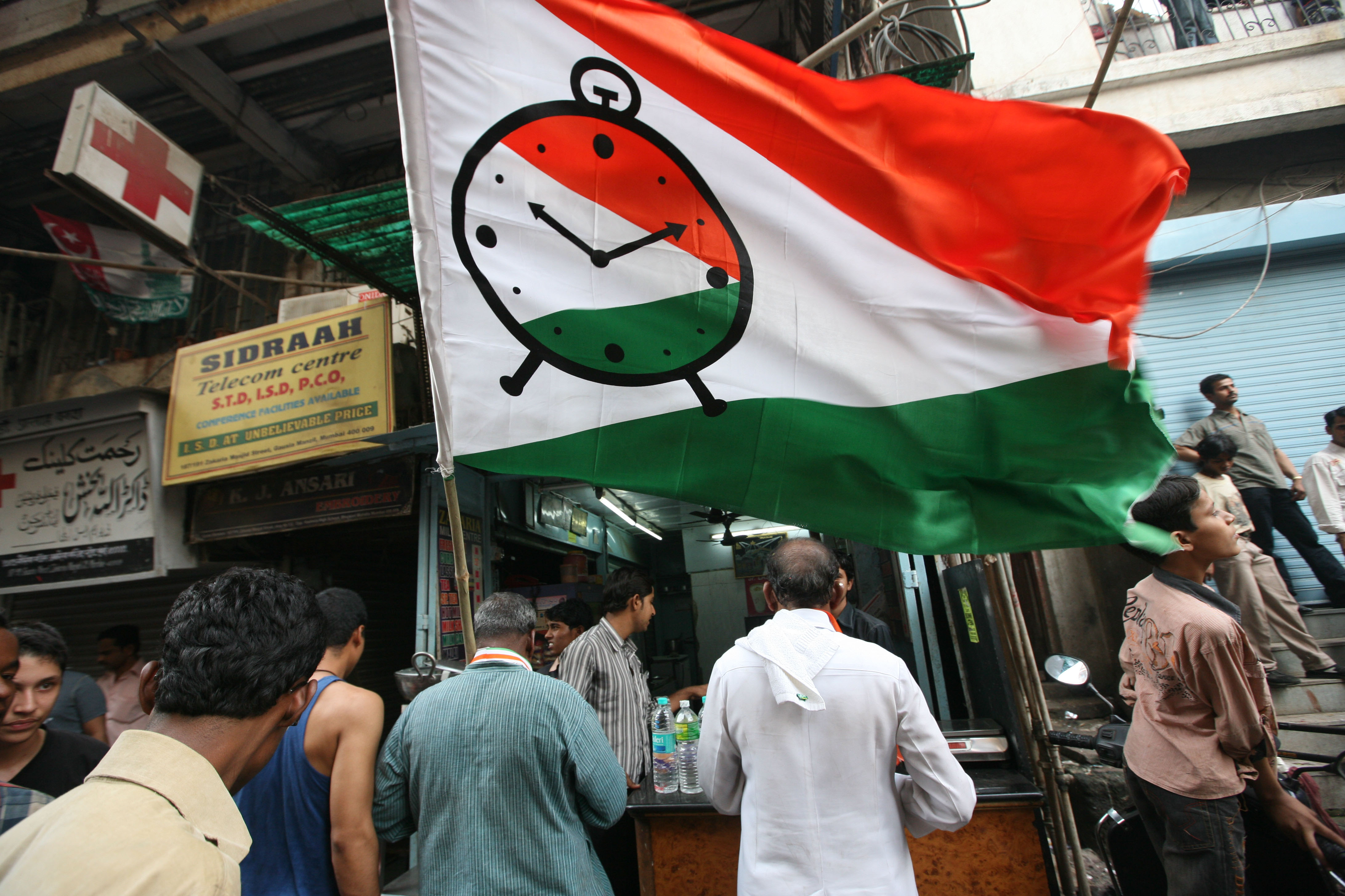 Congress party supporters campaign door-to-door in the western Indian city of Mumbai.